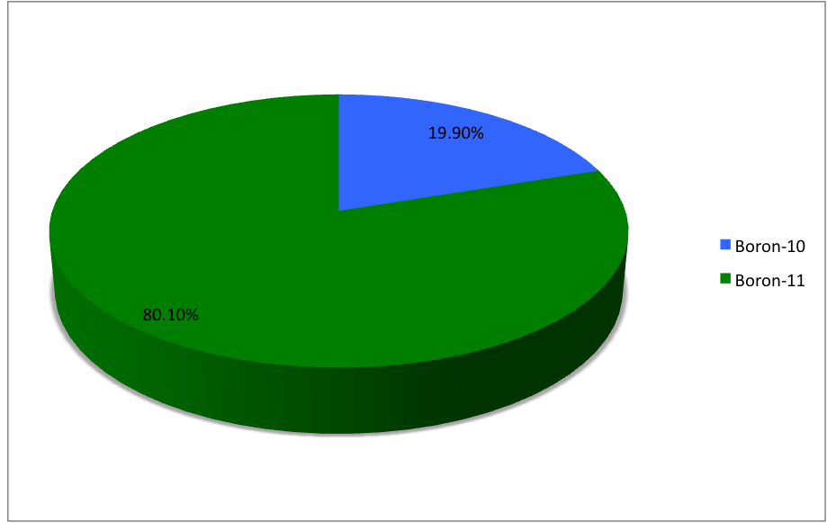 A chart showing the abundances of the naturally-occurring isotopes of Boron. A chart showing the abundances of the naturally-occurring isotopes of Boron.